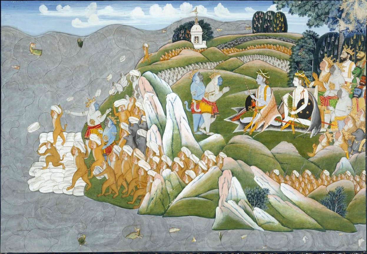 The Rama setu being built by the monkeys and bears